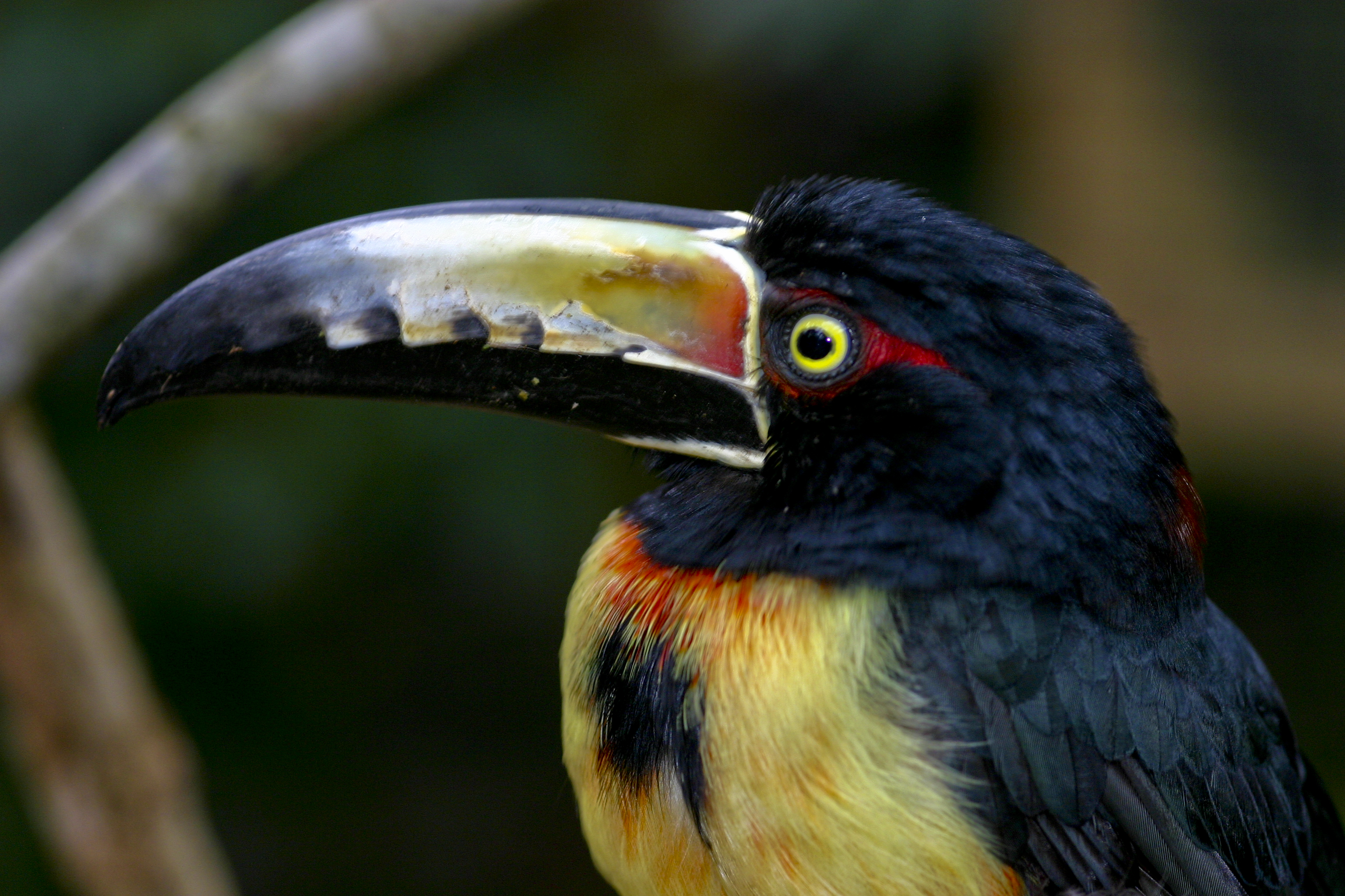 Collared Aracari; photograph of upper body.